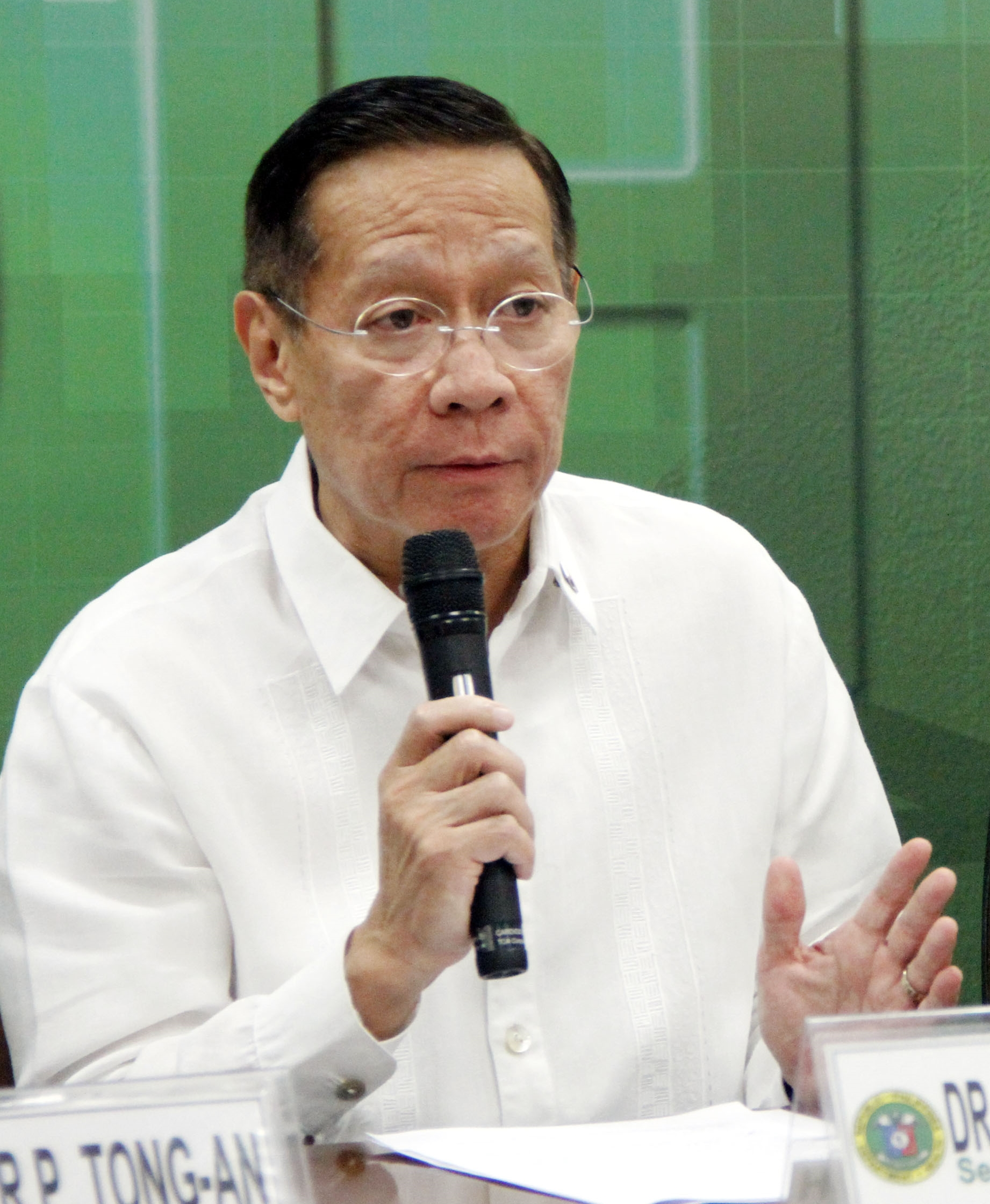 Francisco T. Duque III in November 7, 2017